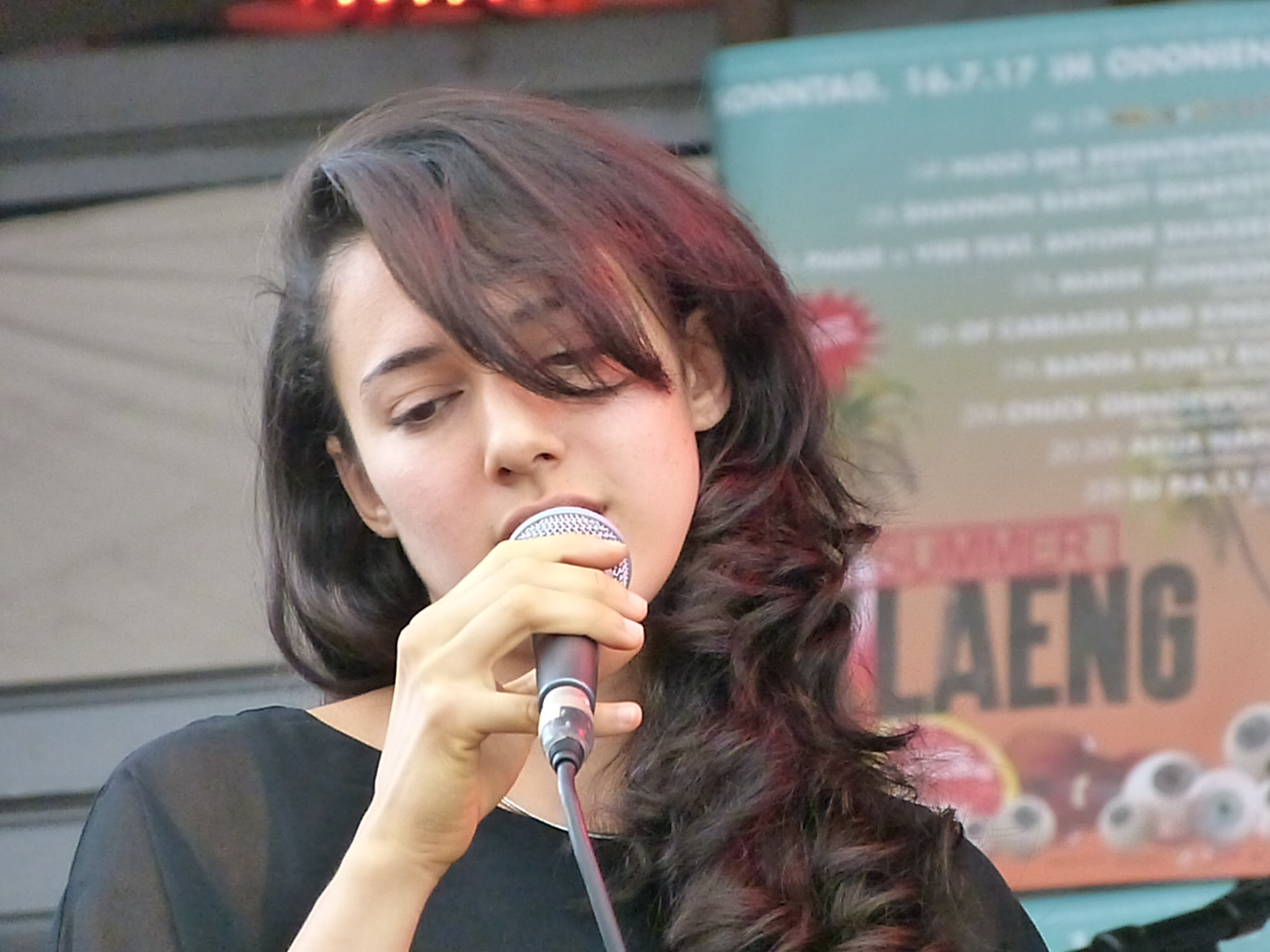 Sabeth Pérez (voc) in concert of the ensemble Of Cabbages and Kings with Veronika Morscher, Rebekka Ziegler and Laura Totenhagen (vocalists) at KLAENG Festival, Cologne, Germany, July 16th, 2017